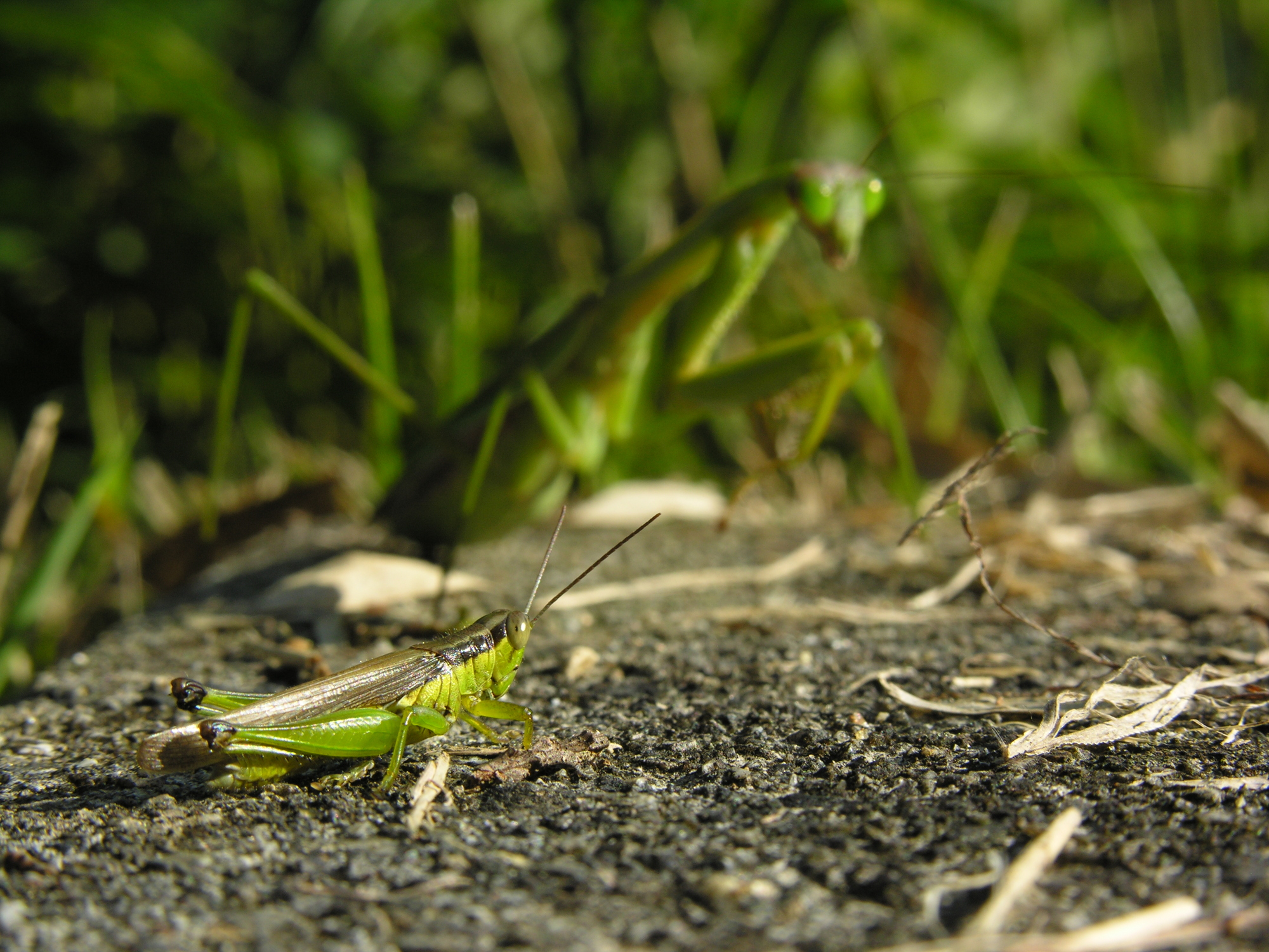 A (long winged)rice grasshopper in front of mantis...